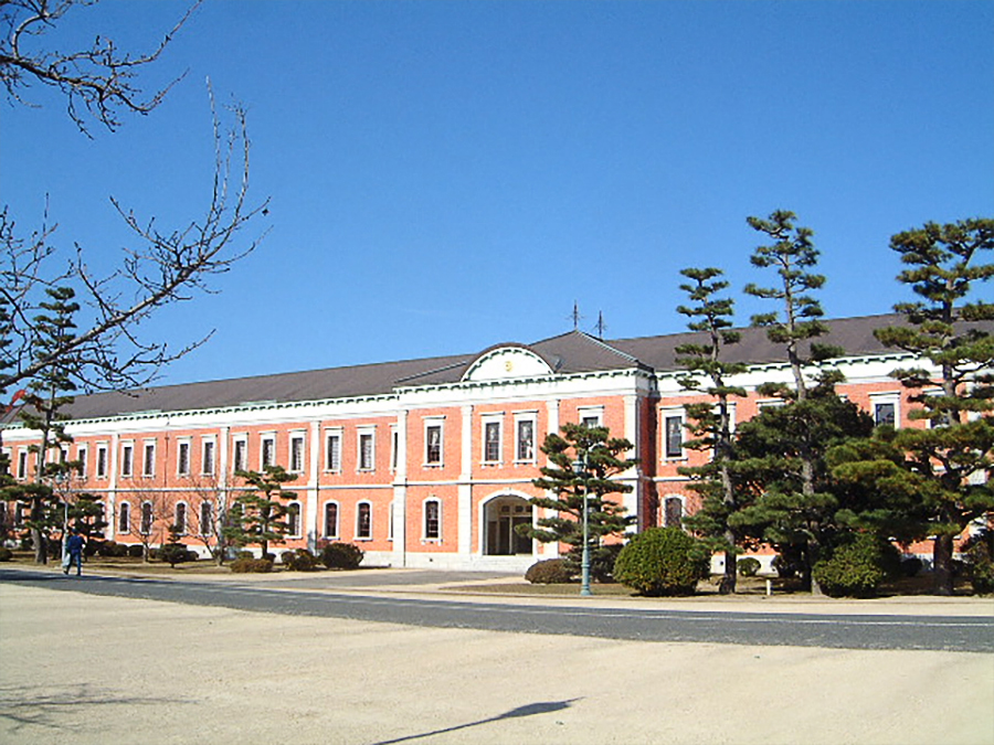 旧海軍兵学校（現在の海上自衛隊幹部候補生学校）日本国広島県江田島市 2000年12月6日1215ｉ(0315Z)撮影 Former Japanese Naval Academy (Present Maritime Self-Defense Force Maritime Officer Candidate School), Edajima city, Japan